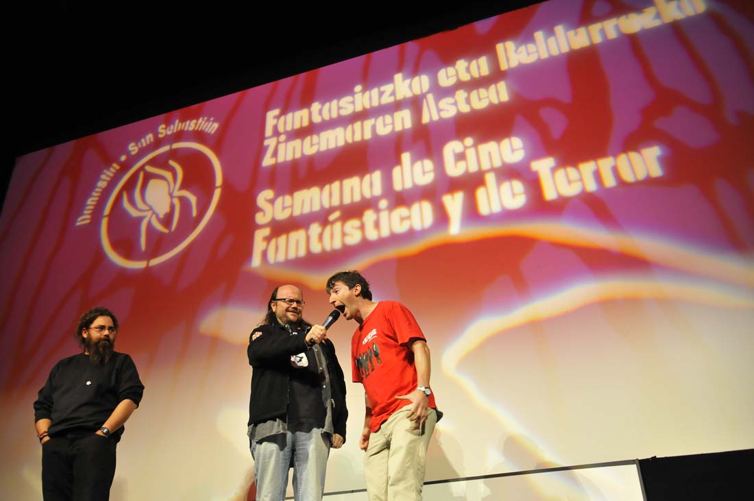 Fantasy and Horror Filn Fesitval in Donostia, 2010: Santiago Segura.